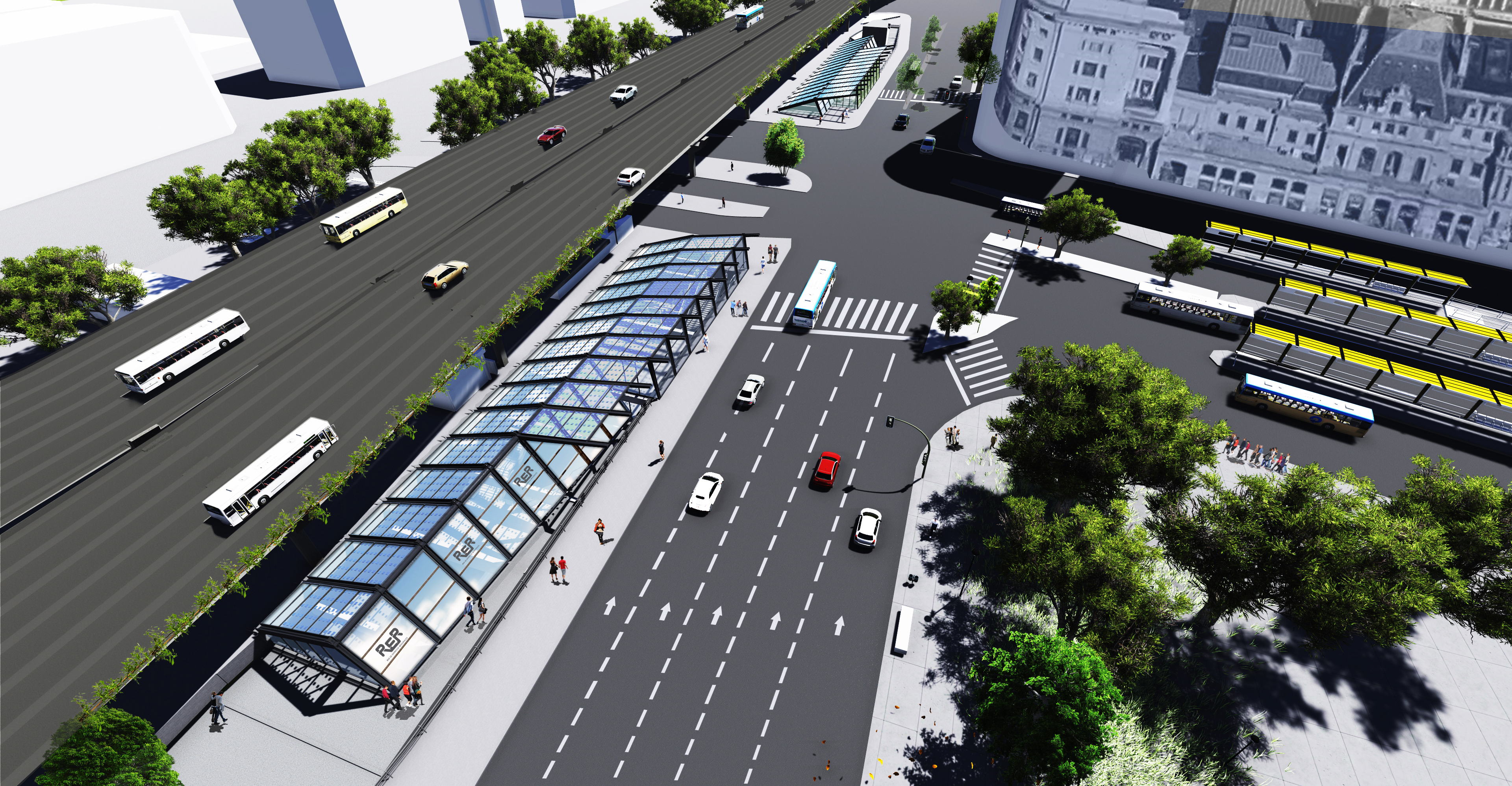 An artist's impression of a RER station in Buenos Aires.